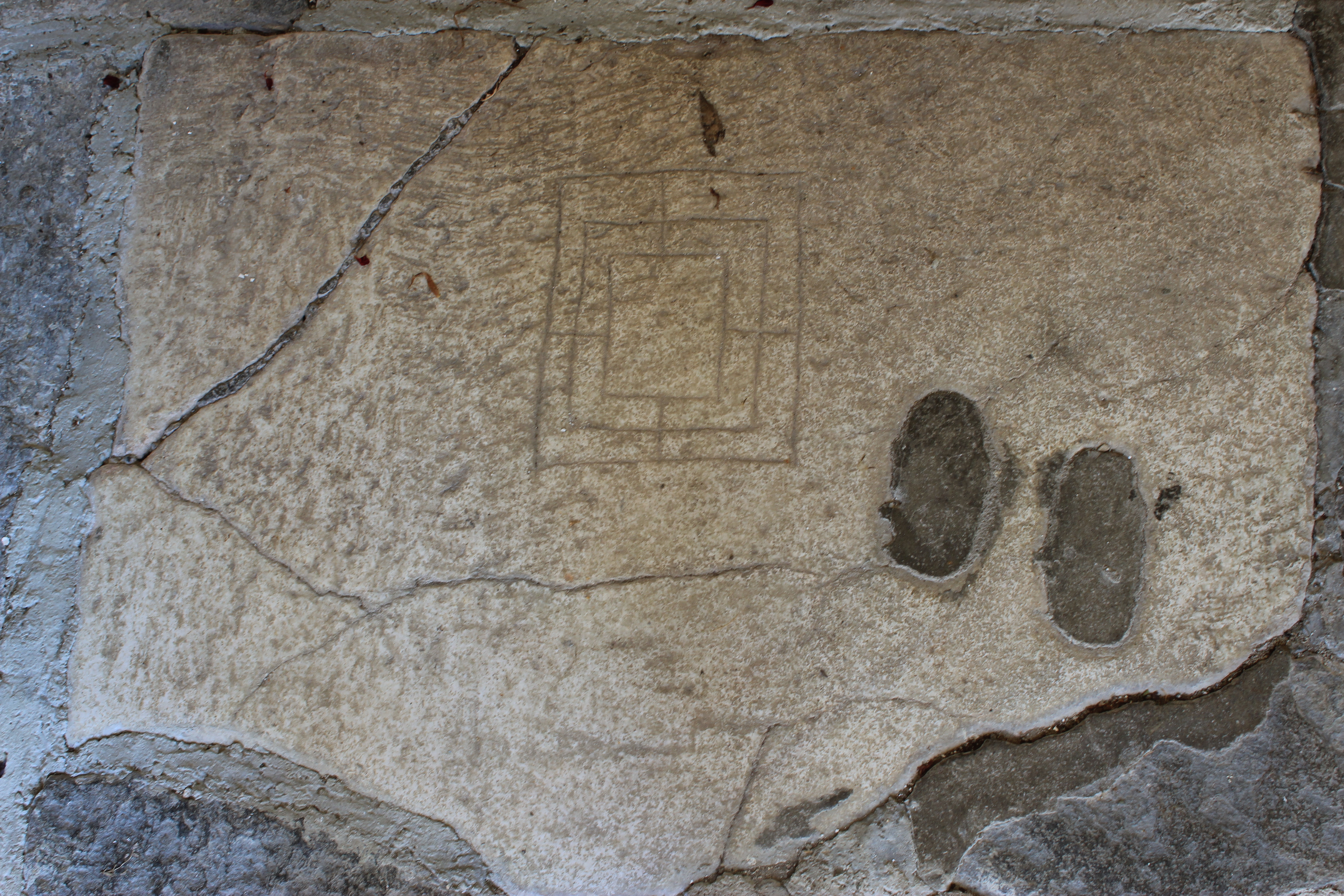 Church in Sankt Martin in the community of Völkermarkt - Roman stone